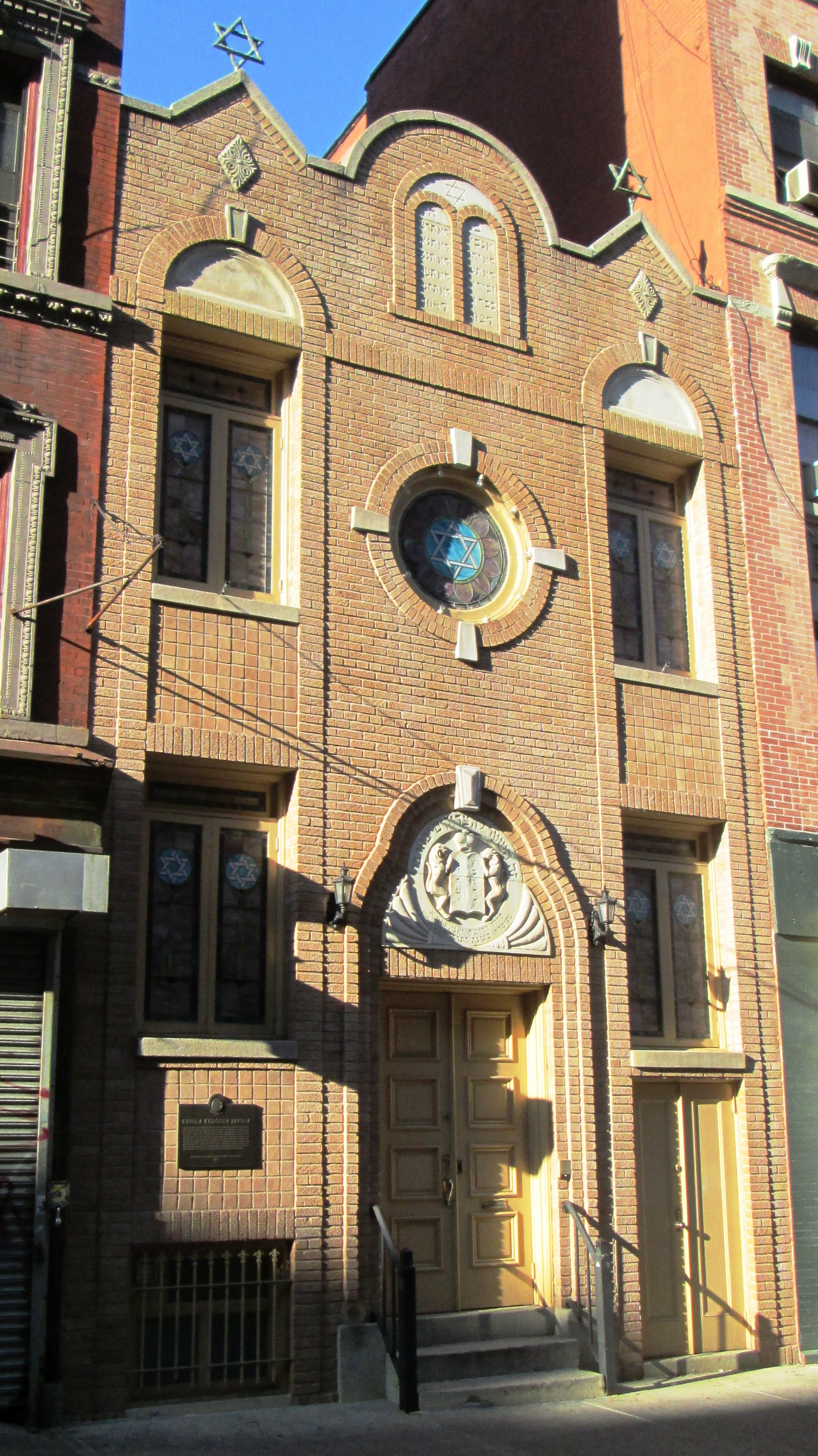 The Kehila Kedosha Janina (Holy Community of Janina) synagogue at 280 Broome Street between Allen and Eldridge Streets in the Lower East Side neighborhood of Manhattan, New York City was built in 1925-27 and was designed by Sydney Daub.[1] It is now the only Romaniote rite synagogue in the Western Hemisphere. Romaniote traditions are separate from those of both Sephardic and Ashkenazy Judaism. (Sources: From Abyssinian to Zion and "NYCLPC Designation Report")